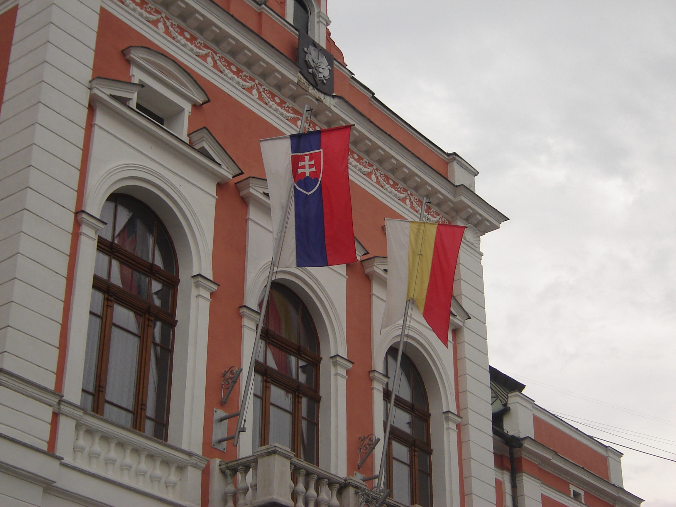 flag of ruzomberok